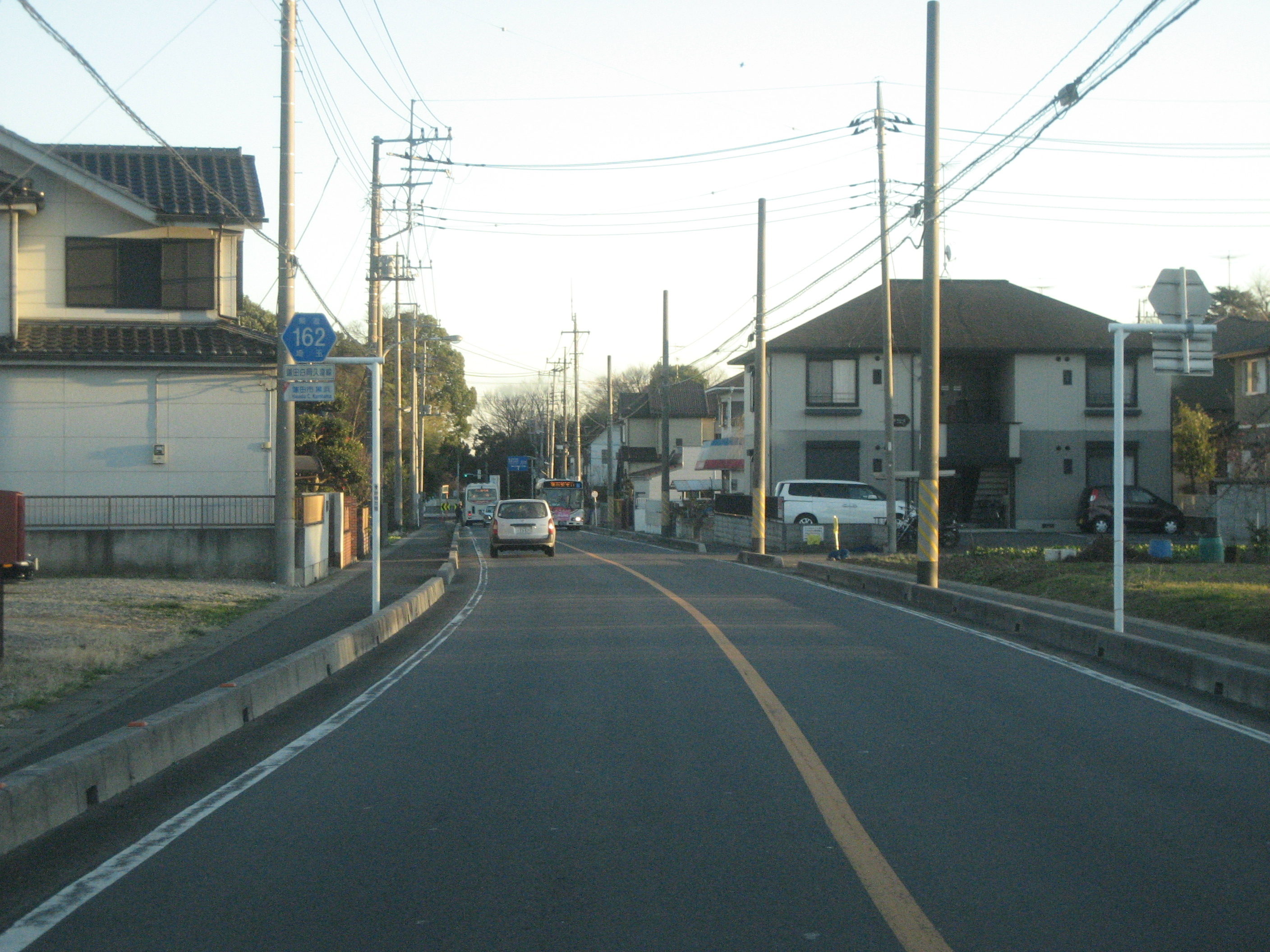 The Saitama Prefectural Road Route 162 in Hasuda City